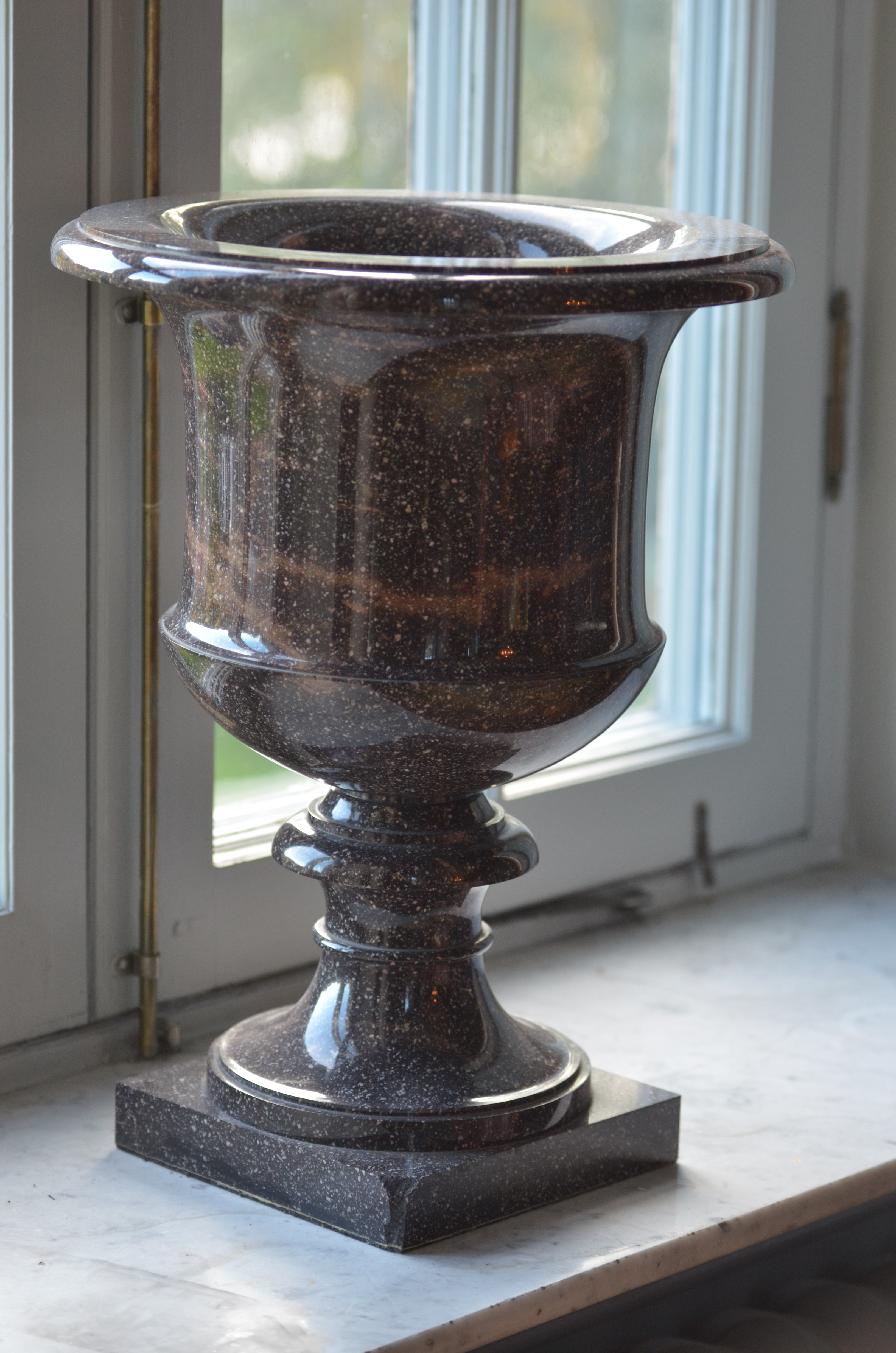 Pjäs i älvdalsporfyr, Kungliga Vetenskapsakademien